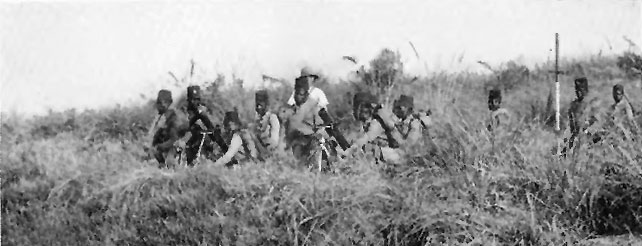 Force Publique setting up machine guns in Ethiopia during the East African Campaign